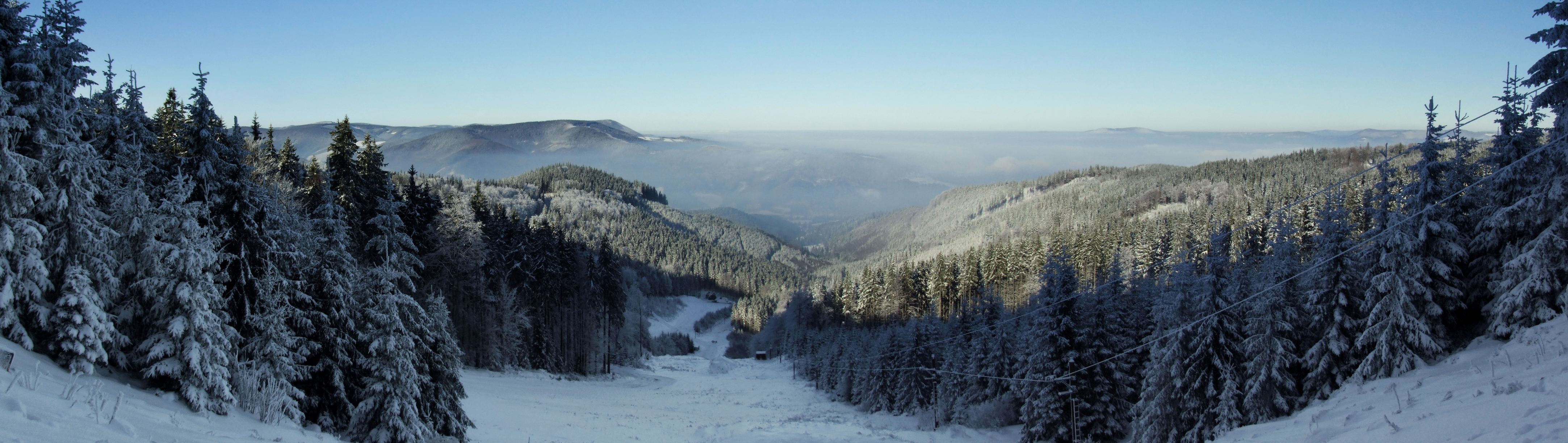 Moravian-Silesian Beskids in the Czech Republic in winter